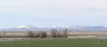 Bear's Paw mountains, colloquially known as "Bearpaws". Image taken near Virgelle, Montana (Chouteau County), looking north